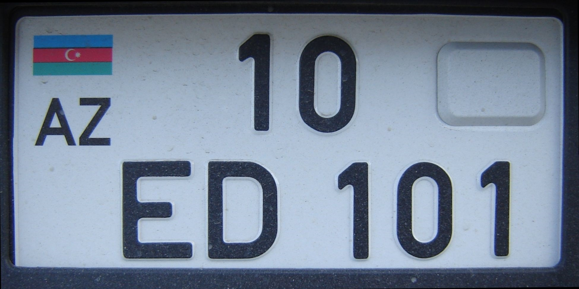 Licence plates from Azerbaijan, rear rectangular format version with RFID tag, 10 = Baku, Photo taken in Beylerbeyi village (Bellapais), near Girne (Kyrenia), Northern Cyprus